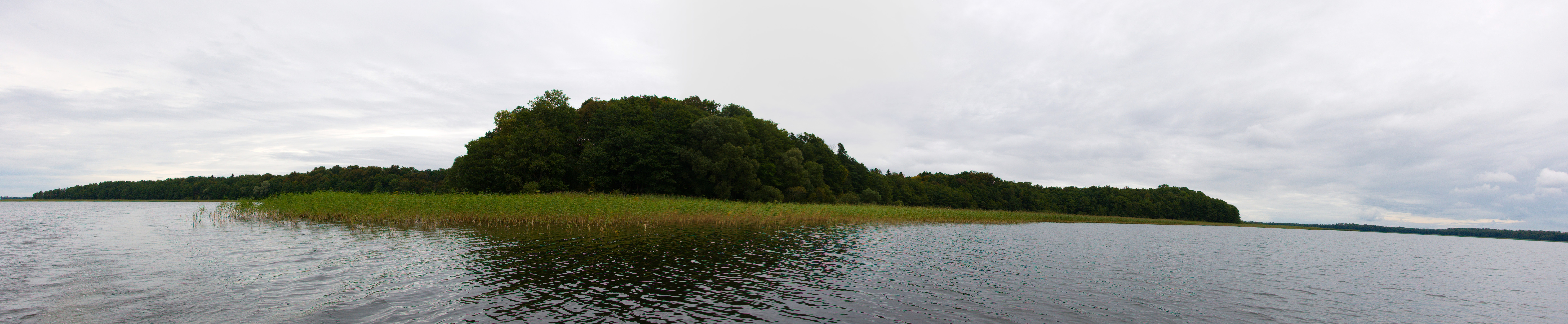 The islet of Upałty seen from the West